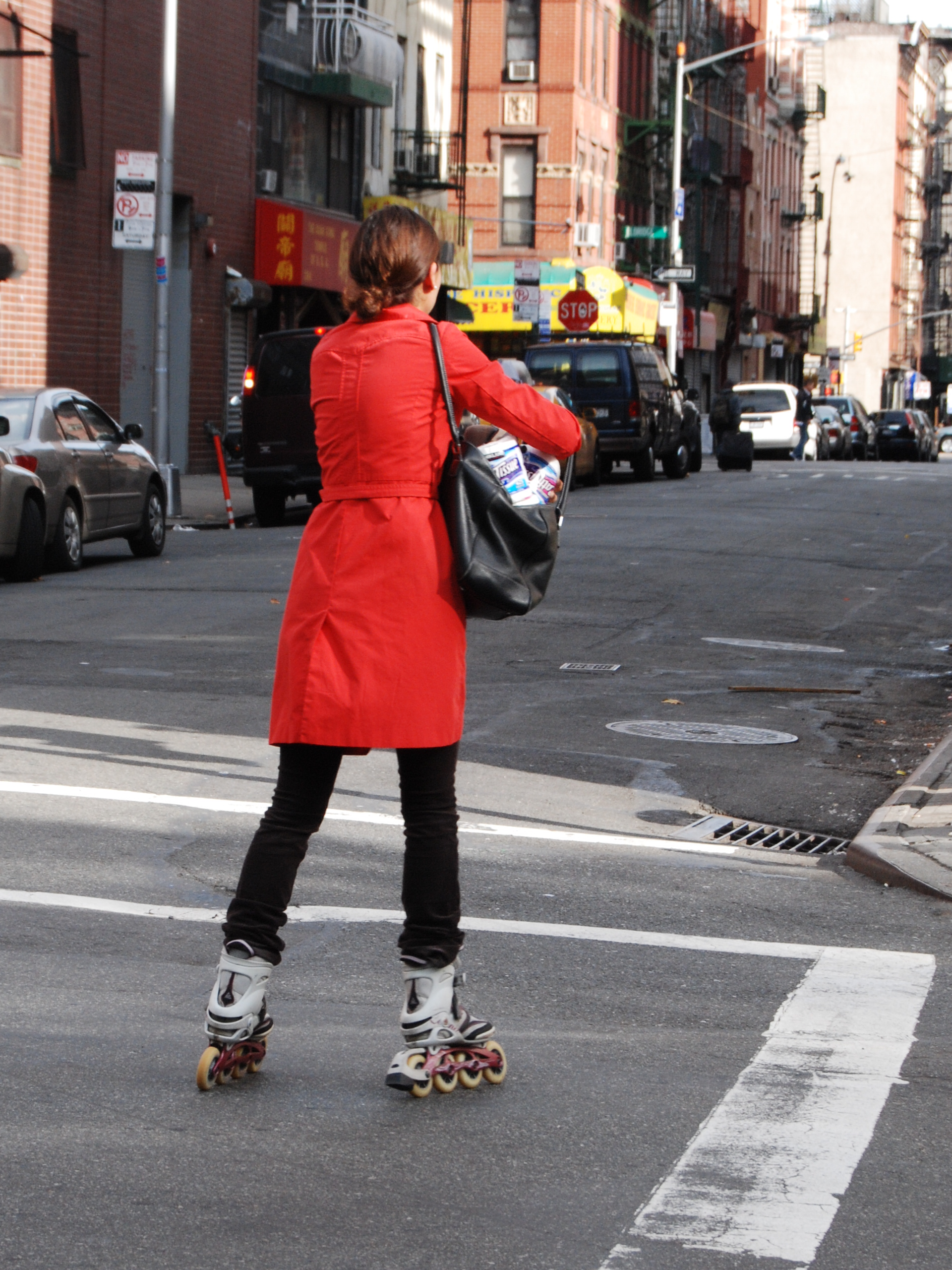 In-Line Skater in New York City